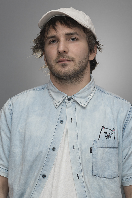 István Baráth a Hungarian actor